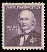 1961 stamp honoring Horace Greeley